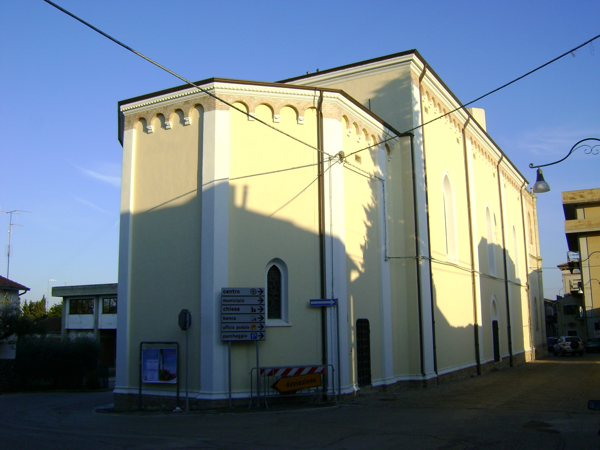 The exterior and the apse of the church of Most Holy Mary of Assumption, Sant'Eusanio del Sangro, province of Chieti, Abruzzo